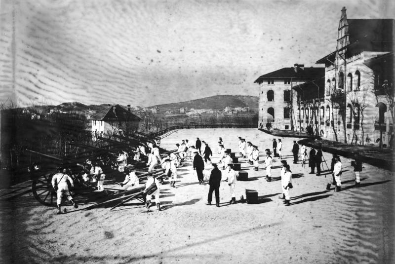 German field artillery unit drill in Qingdao, 1908 Factual corrections and alternative descriptions are encouraged separately from the original description. Additionally errors can be reported at this page to inform the Bundesarchiv. Original historic description: Schutztruppe Kiautschou 1908: Feldartillerie-Kasernement bei Tai tung tschen